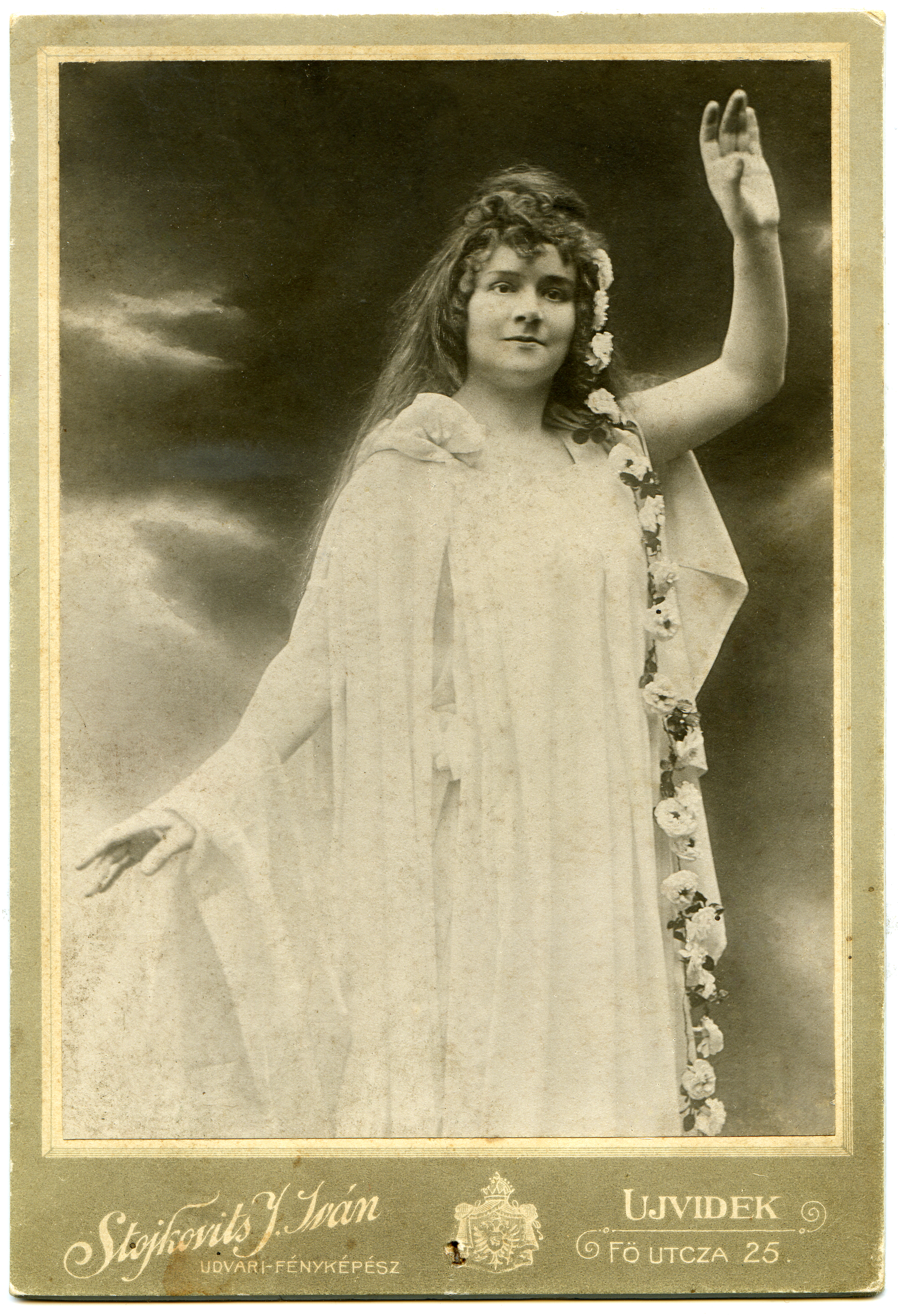 Actress Milka Markovic as Ophelia in William Shakespeare's drama Hamlet (Photo Studio by Ivan Stojković, Novi Sad, approx, 1906) Srpski (latinica): Glumica Milka Marković kao Ofelija u drami Vilijama Šekspira Hamlet (Atelje Ivana Stojkovića, Novi Sad, oko 1906) Српски (ћирилица): Глумица Милка Марковић као Офелија у драми Вилијама Шекспира Хамлет (Атеље Ивана Стојковића, Нови Сад, око 1906)